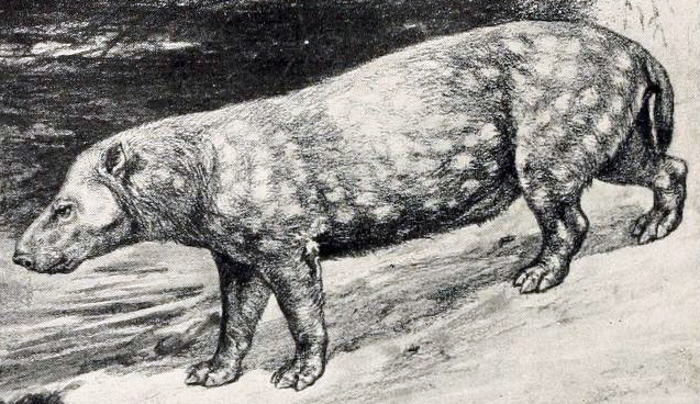 Crop of file in filename